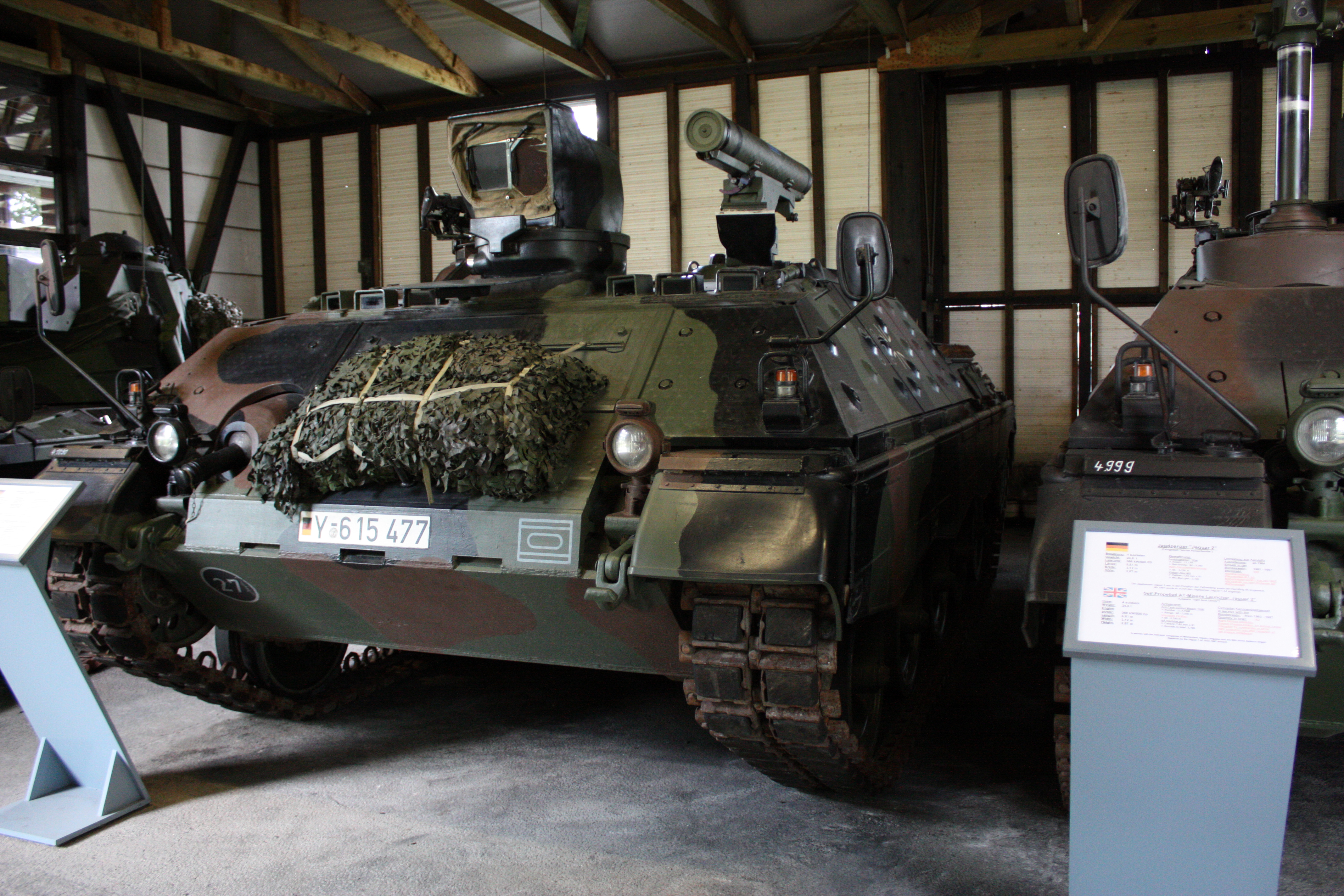 German Tank Museum